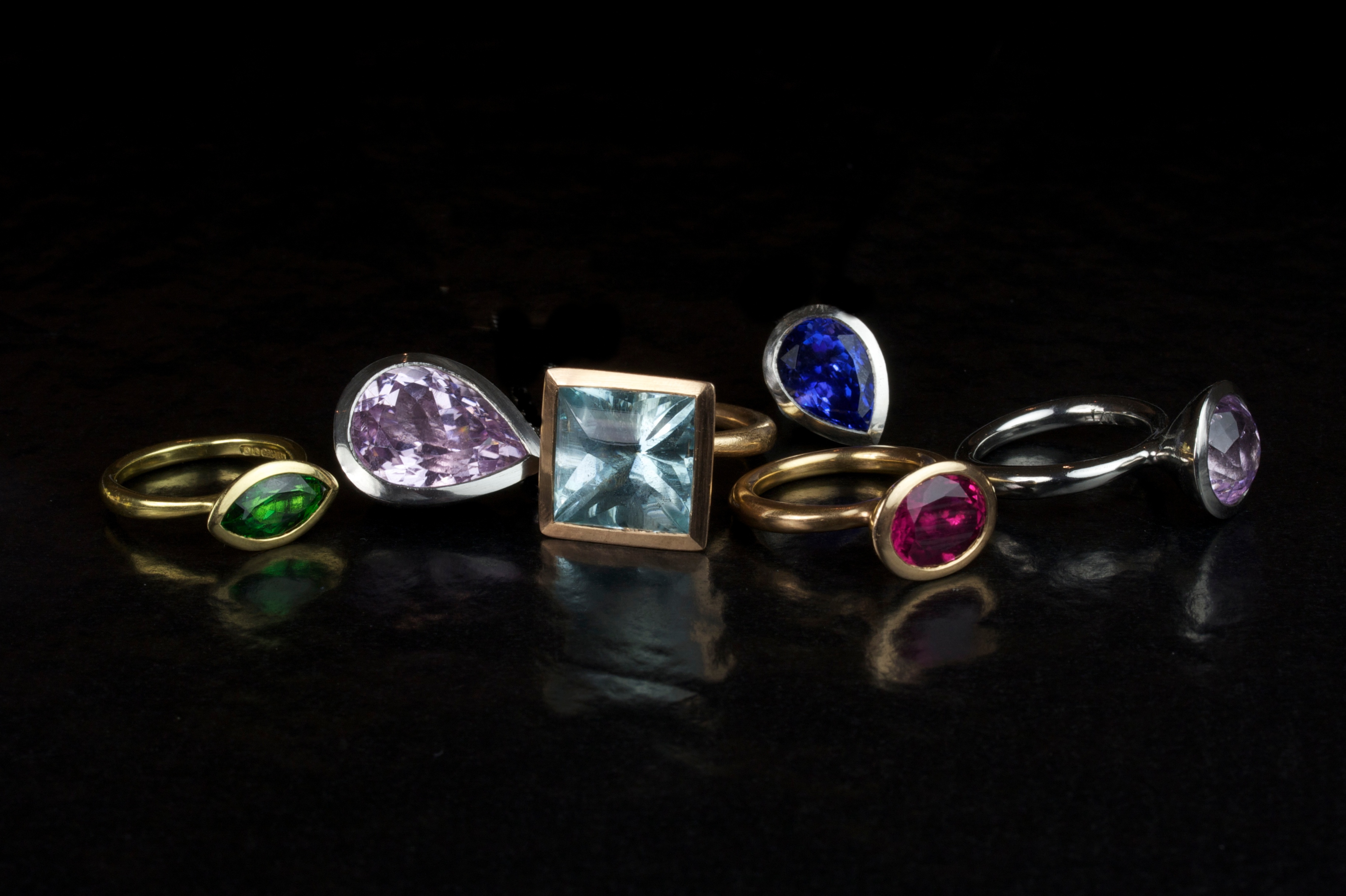 Wright & Teague Delphi Rings